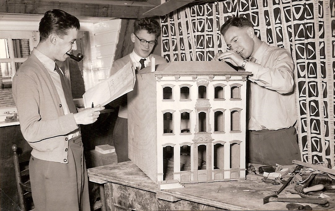 Marquette of Oude Delft 123 being built for Madurodam in march 1957. The entrance is situated to the left, as it was with the real building at the time. Jan Vugt (r), Wim Visser (m), Wim van Dorp (l).